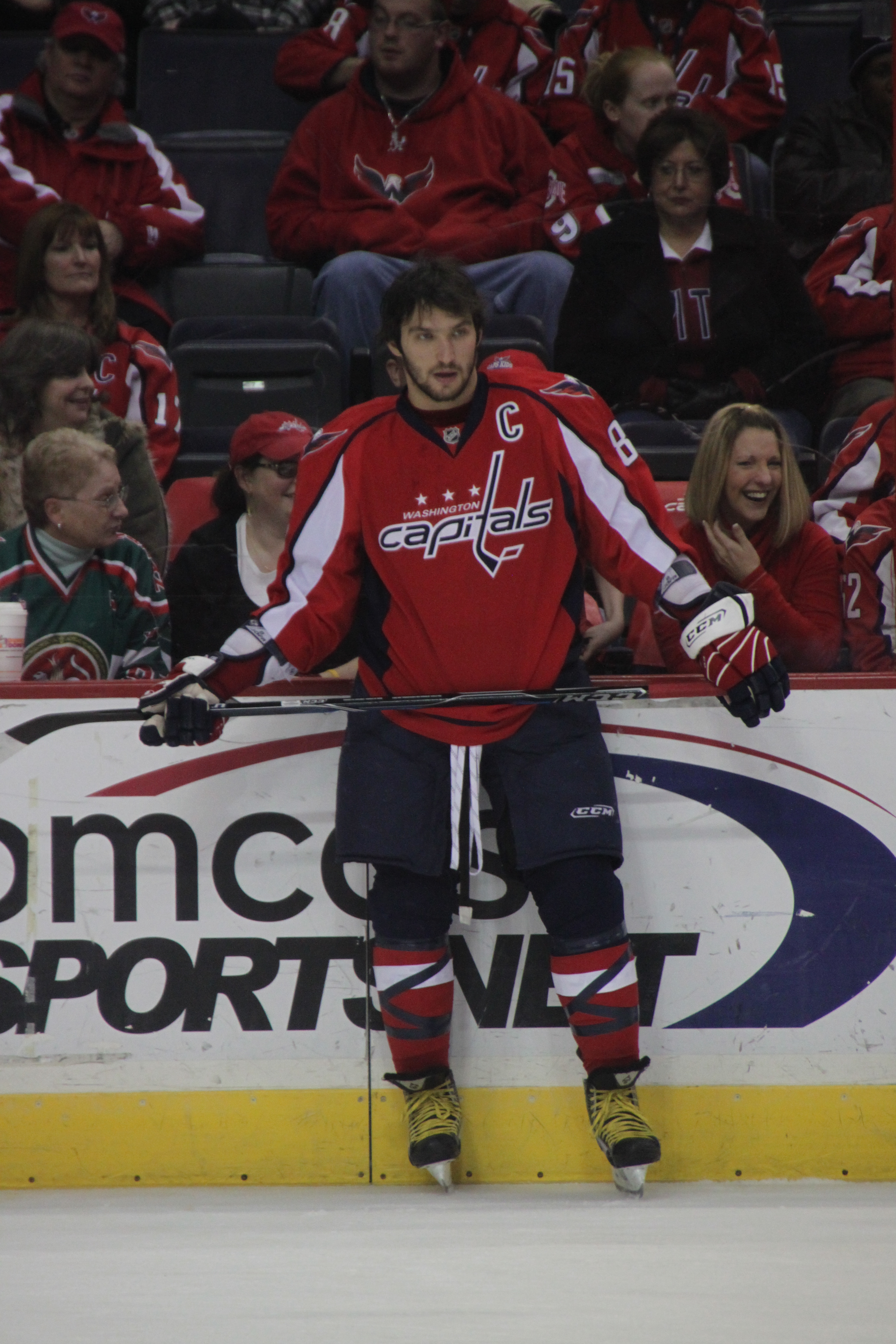 Alex Ovechkin